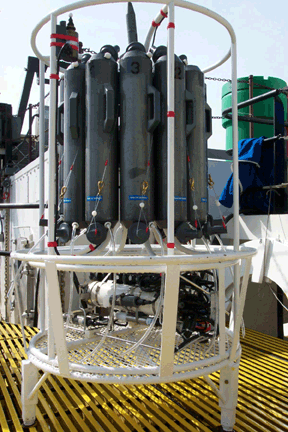 View of a rosette sampler, used to collect water samples for water quality testing. This type of sampler can be used in deep water for locations such as the Great Lakes and oceans.